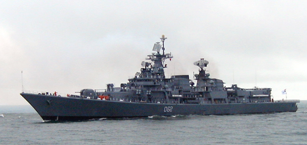 Indian Navy INS Mumbai (D62) at Fremantle, Western Australia.